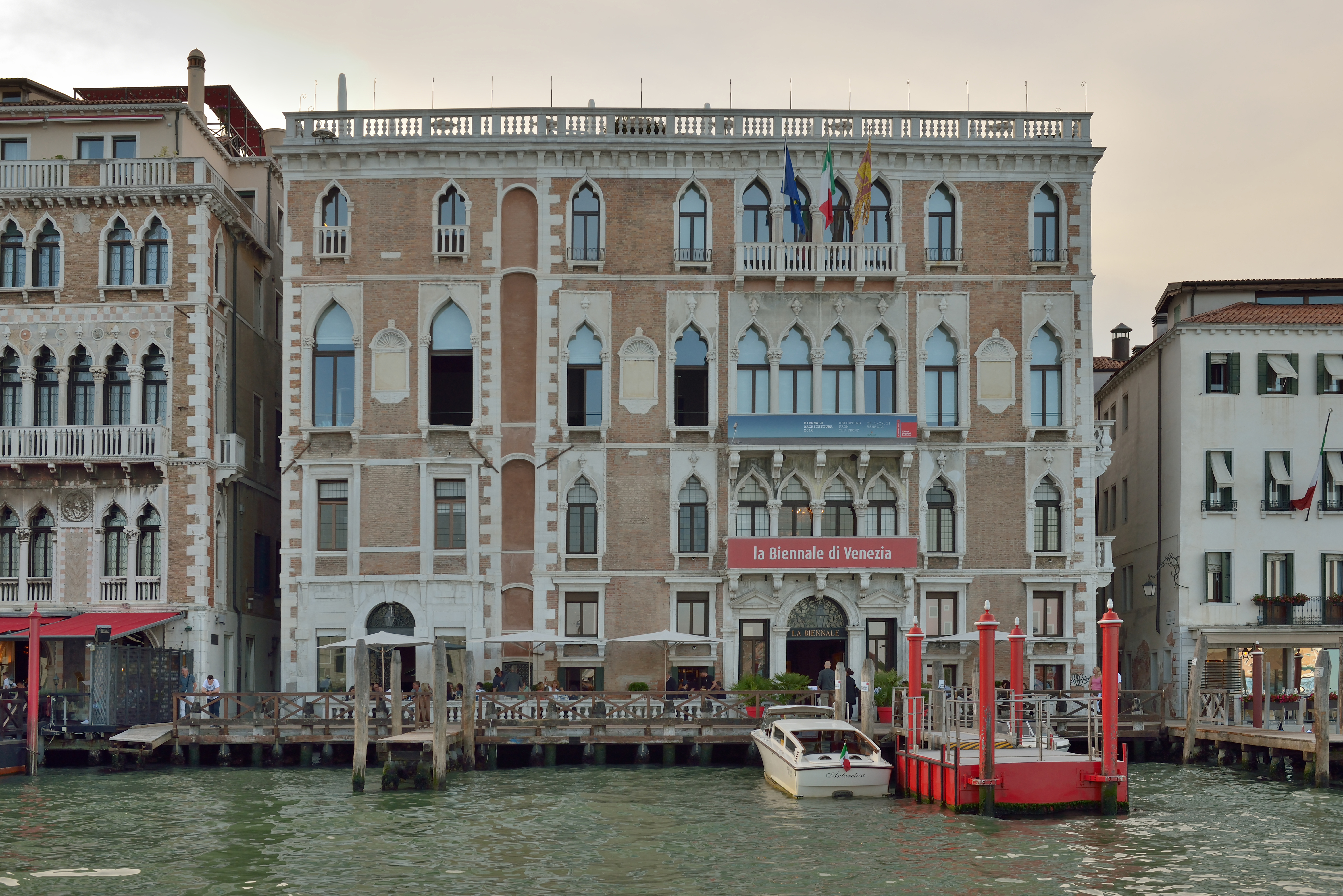 Palazzo Ca' Giustinian-Morosini in Venice. Facade on Grand Canal.